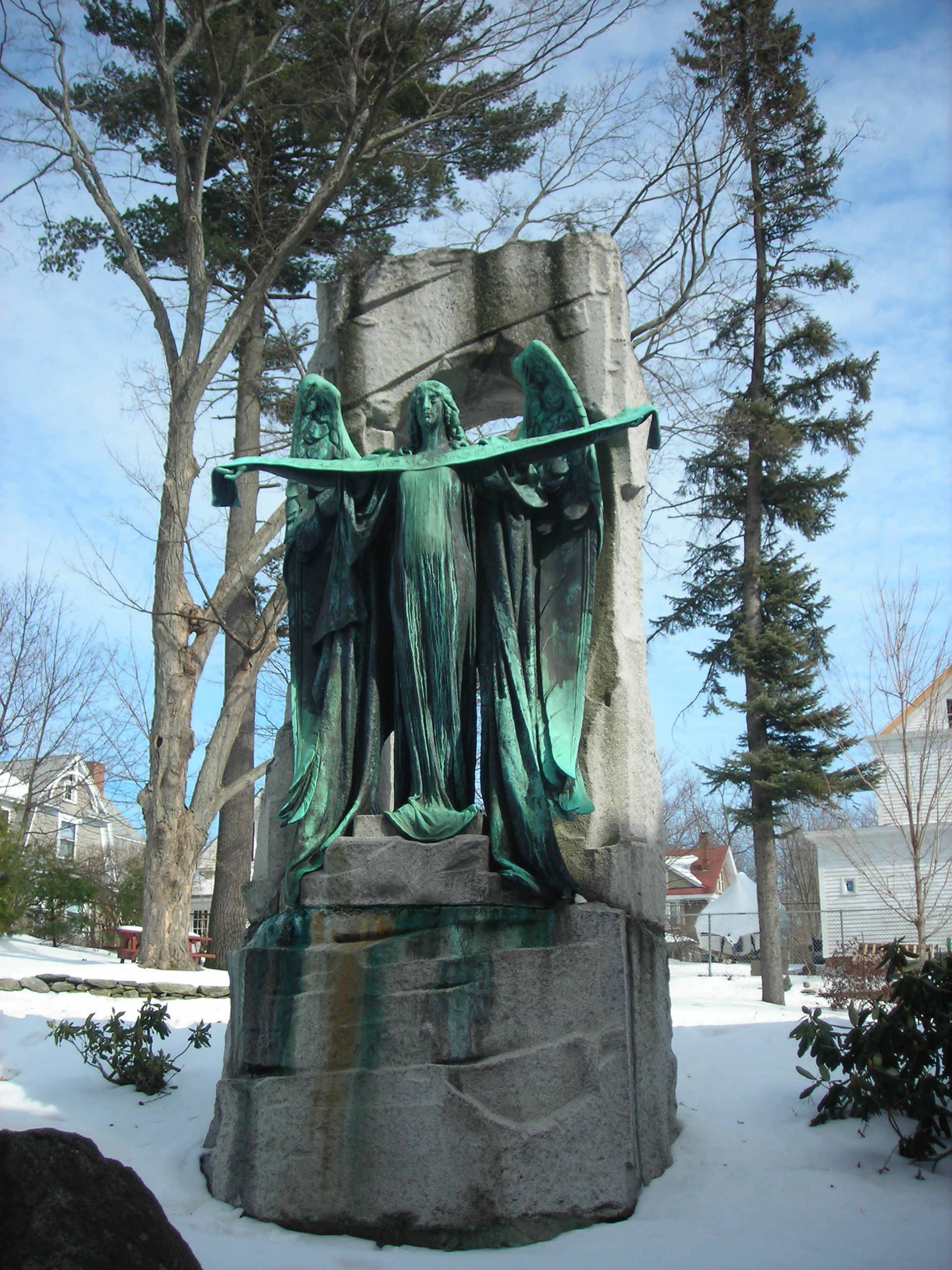 Angel of Life sculptured by George Moretti (1896) Tomb of David Nevins, Sr. and Elizabeth Coffin Nevins behind the Nevins Memorial Library